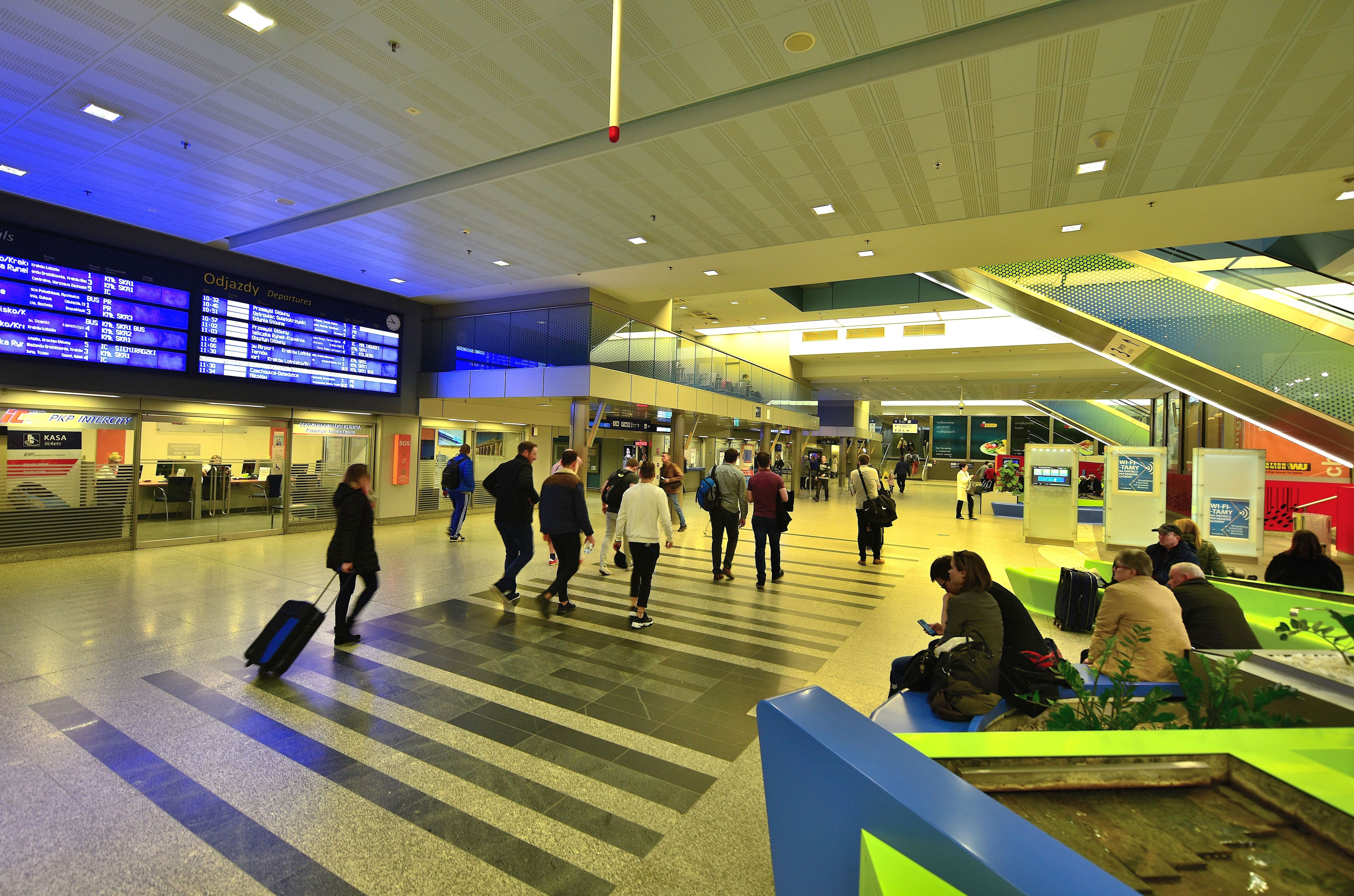 Kraków Główny railway station